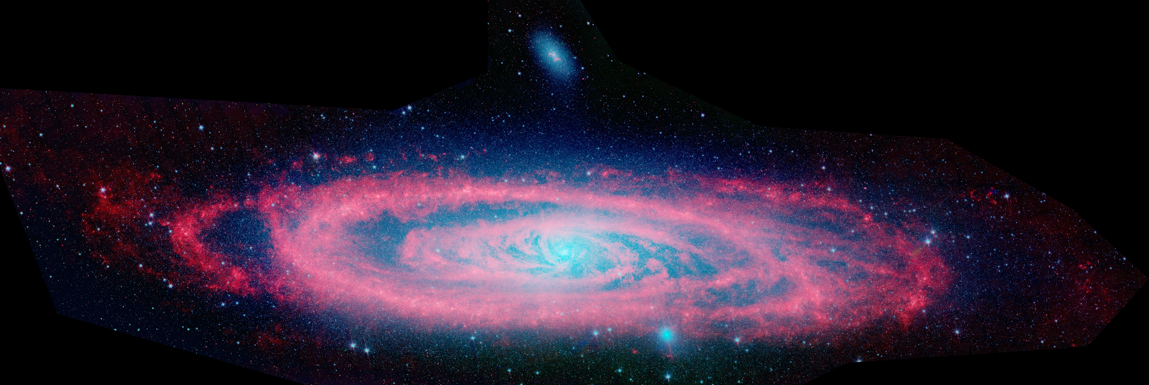 This infrared composite image from NASA's Spitzer Space Telescope shows the Andromeda galaxy, a neighbor to our Milky Way galaxy. The image highlights the contrast between the galaxy's choppy waves of dust (red) and smooth sea of older stars (blue). Spiral galaxies tend to form new stars in their dusty, clumpy arms, while their cores are populated by older stars. The Spitzer view also shows Andromeda's dust lanes twisting all the way into the center of the galaxy, a region that is crammed full of stars. In visible-light pictures, this central region tends to be dominated by starlight.